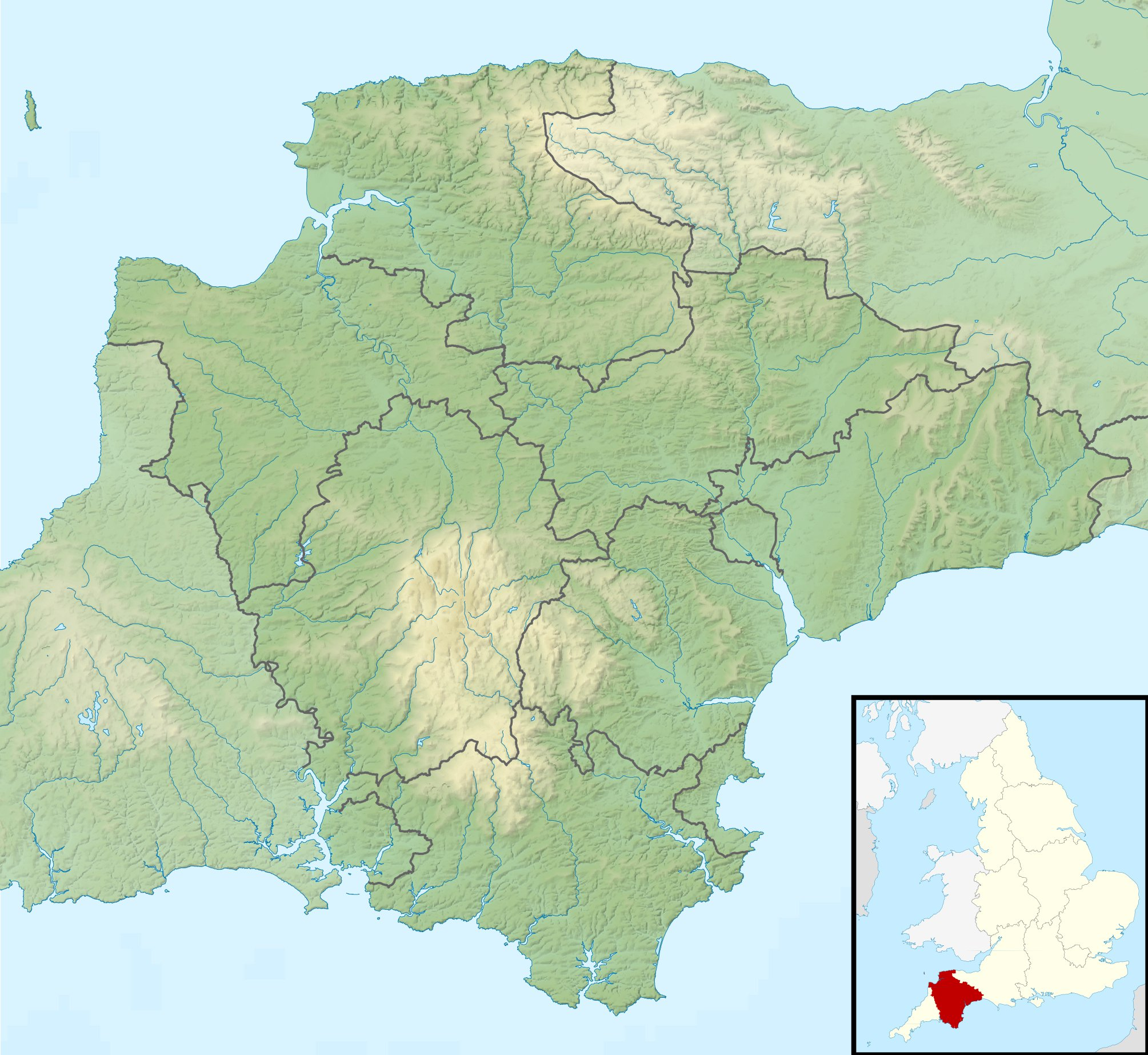 Relief map of Devon, UK. Equirectangular map projection on WGS 84 datum, with N/S stretched 150% Geographic limits: West: 4.72W East: 2.86W North: 51.3N South: 50.16N